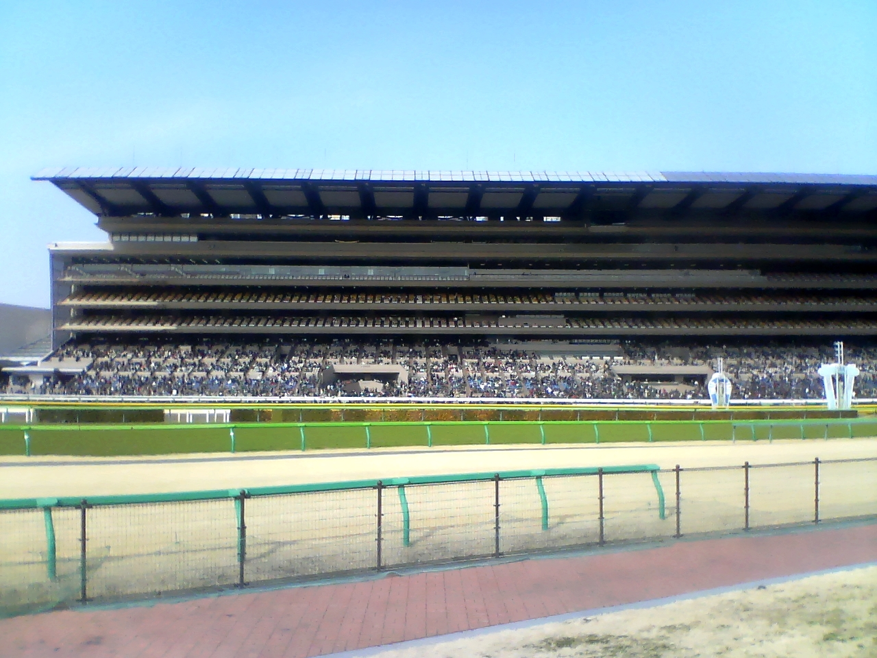 Fuji View Stand,Tokyo Racecourse,Japan.